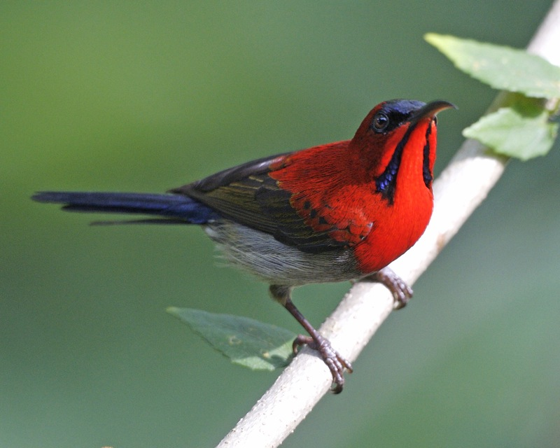 This is a pose commonly associated with Crimson sunbirds. Crimson Sunbird - male Aethopyga siparaja ssp Aethopyga siparaja siparaja Location : Residential Garden, Merryn Road, Singapore 1st. November 2008 690V4970